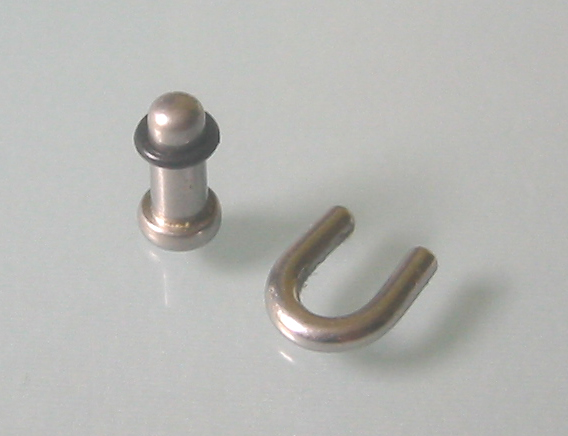 Description: Septum Keeper Photograph: recorded by Nicor first upload in de wikipedia on 17:29, 26. Jul 2005 by Nicor